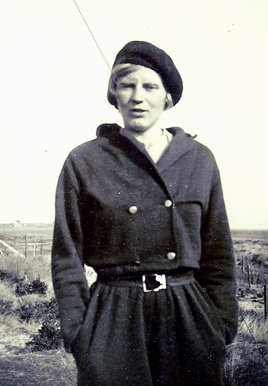 Erna Wehnert (1900–1985), called Erne, on Juist Island, East Frisia, Prussia. The picture is probably made in the early 1930s. She was a teacher for English and Latin at progressive boarding school Schule am Meer (= School by the Sea). She had left Freie Schulgemeinde Wickersdorf in Thuringia, where she started her career while overseeing the four children of Annemarie (1878–1926) and Martin Luserke (1880–1968). In 1926 she came to Juist Island.